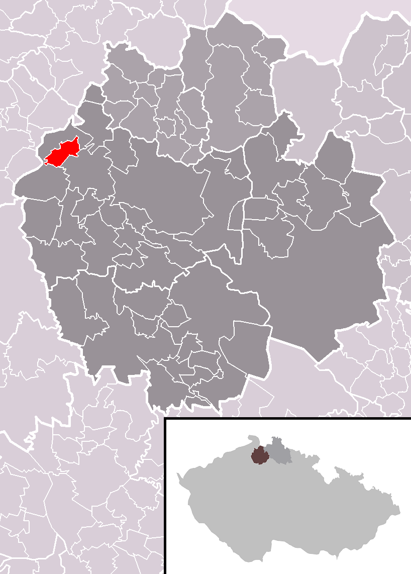 Location of Horní Police municipality within Česká Lípa District and administrative area of Česká Lípa as a Municipality with Extended Competence.